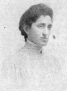 A woman with thick dark hair dressed back into braids at the nape; she is wearing a high-collared white lace shirtwaist or dress.